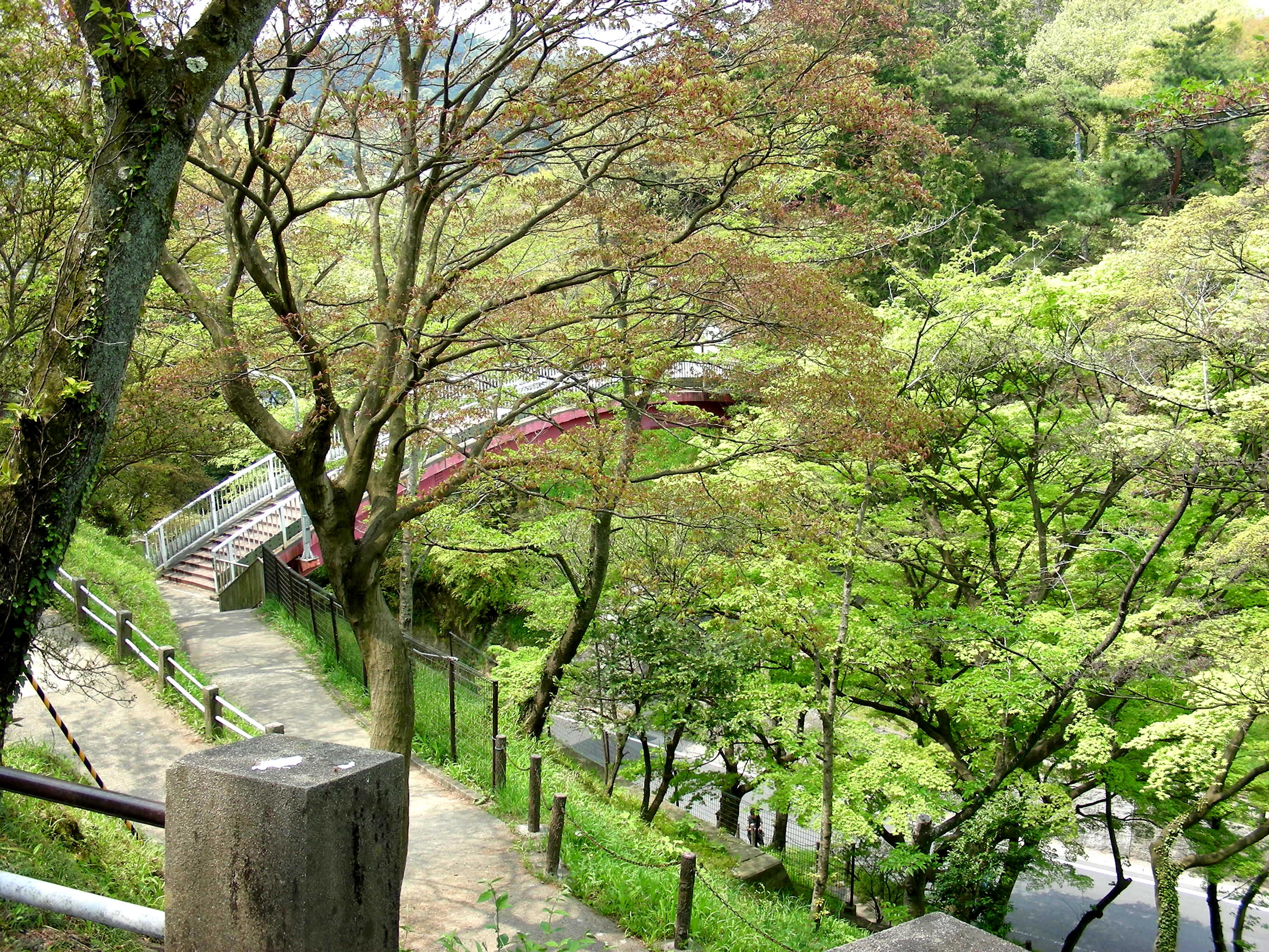 The Matsugaoka Park in Iwaki City, Fukushima Prefecture, Japan